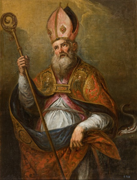 Saint Atilanus, painting at Tarazona cathedral